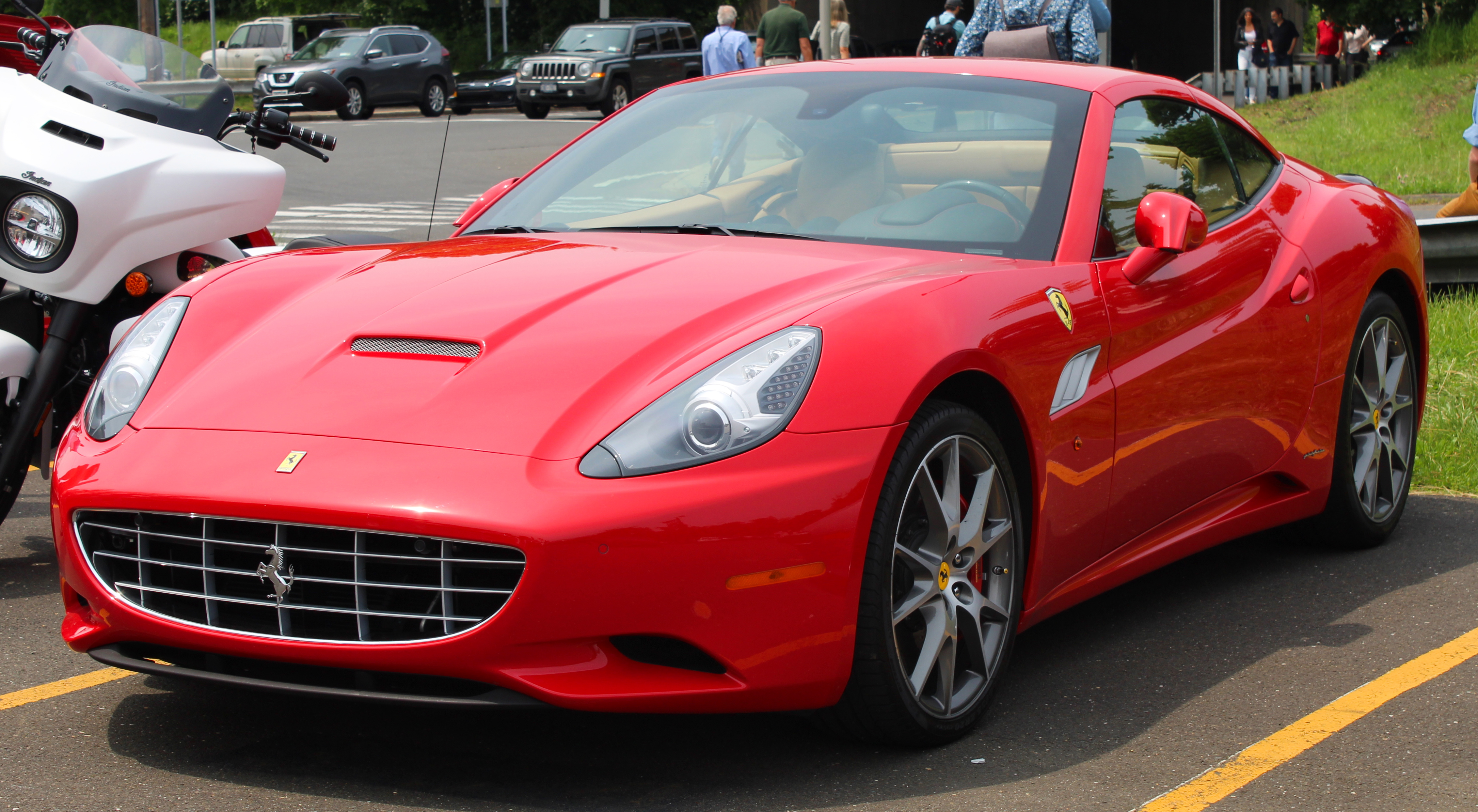 A 2013 Ferrari California photographed in Greenwich Concours d'Elégance Hagerty parking lot, Connecticut, USA